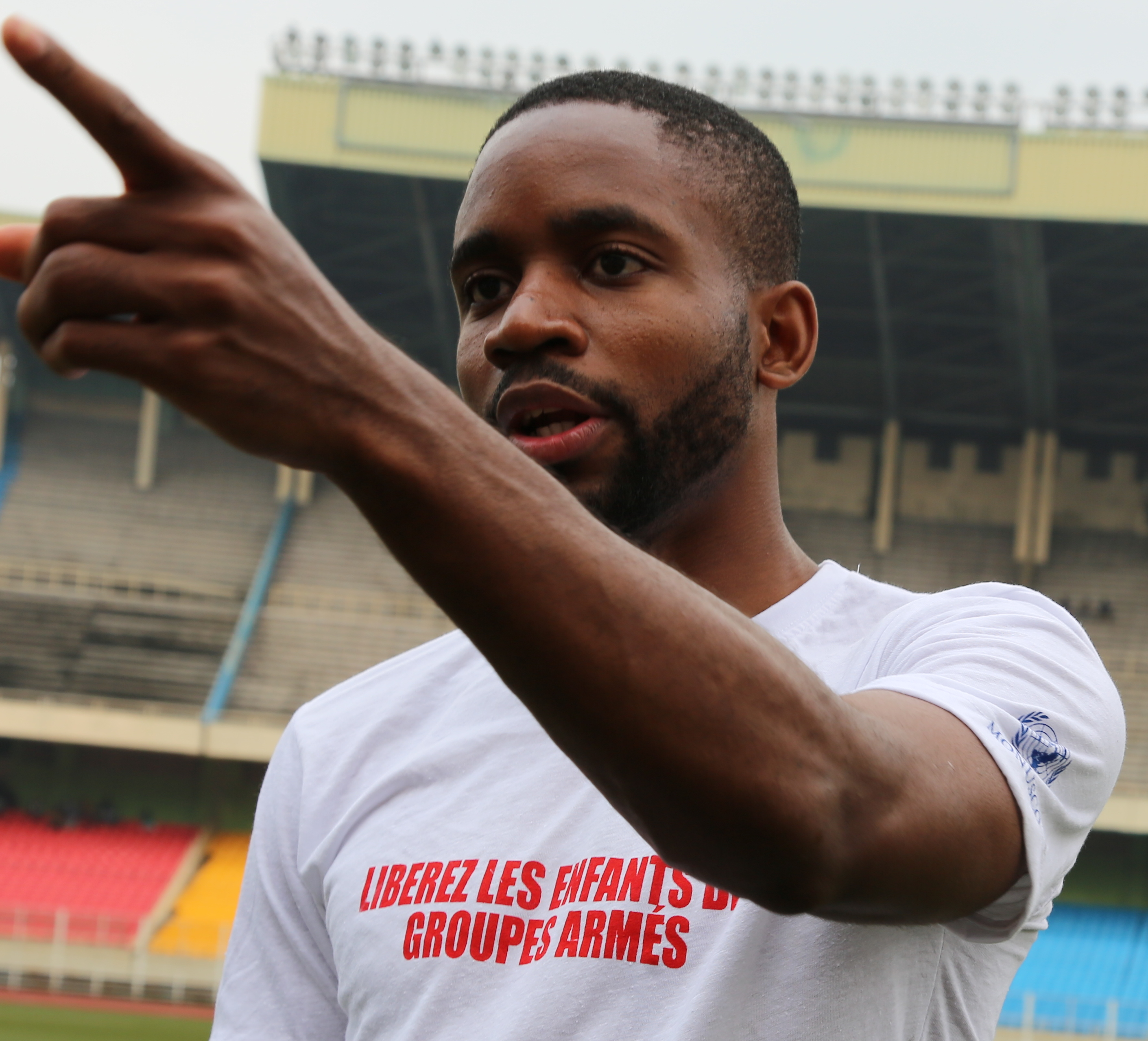 Cédric Bakambu participating in a MONUSCO Child Protection Unit campaign against recruitment of Child soldiers.